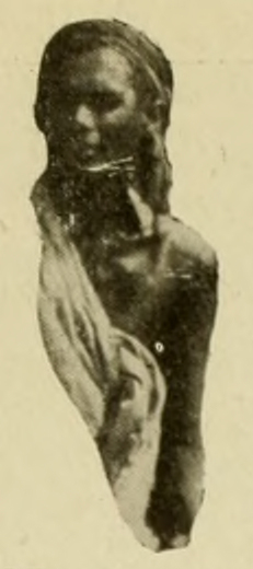 Inhabitant of Abd al Kuri in 1898, from The Natural History of Sokotra and Abd-el-kuri